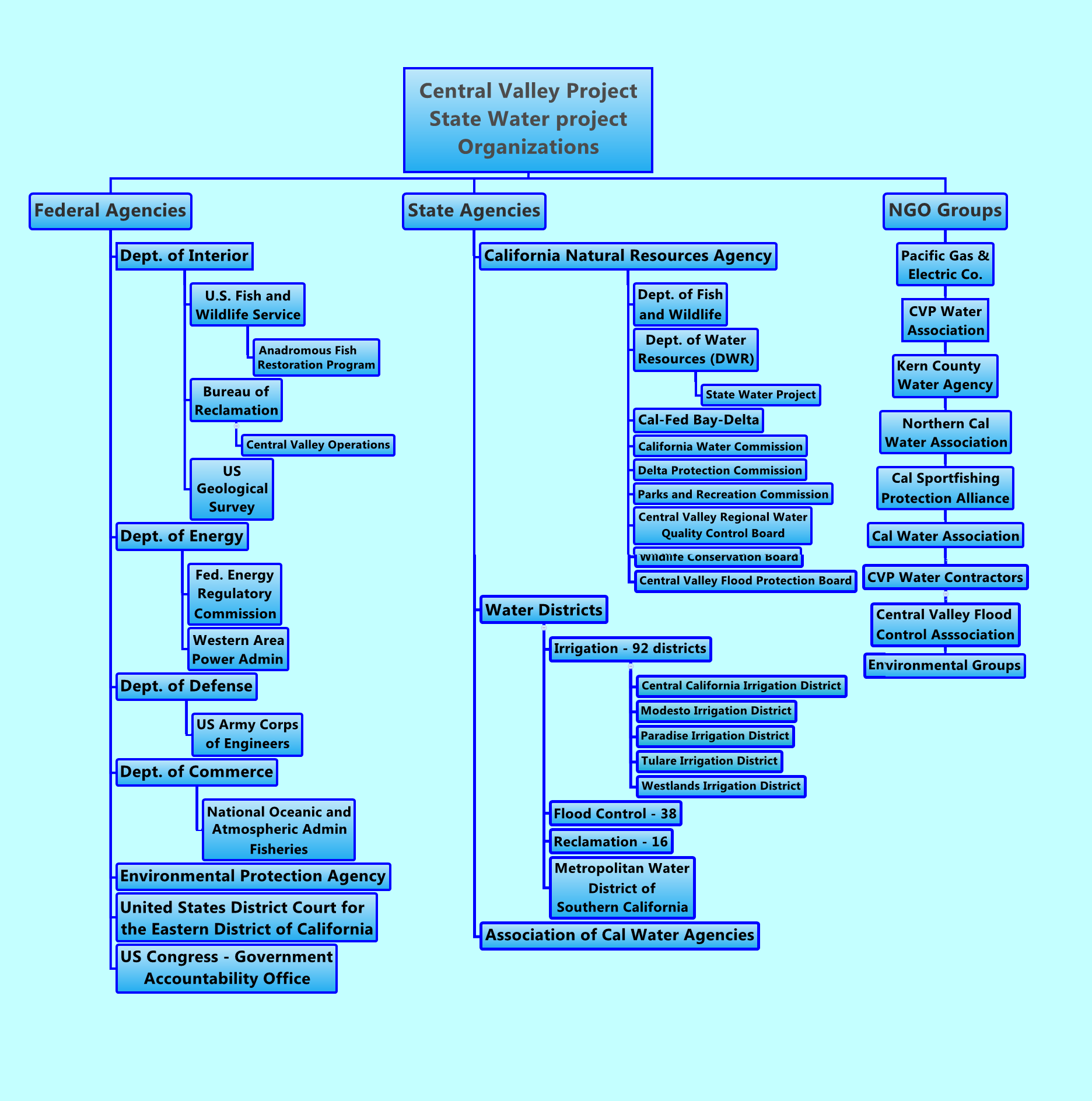 Chart of all Organizations involved in the Central Valley